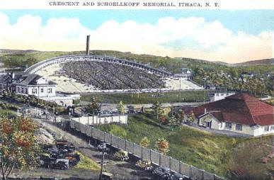 Cornell's Schoelkopf Field in 1922